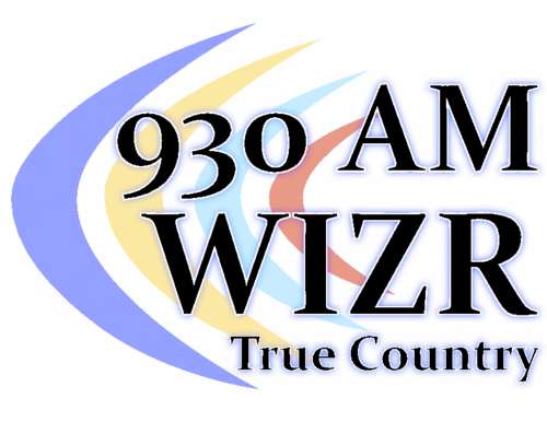 Former logo of the radio station WIZR-AM 930 used between early 2010 and 1 June 2011.